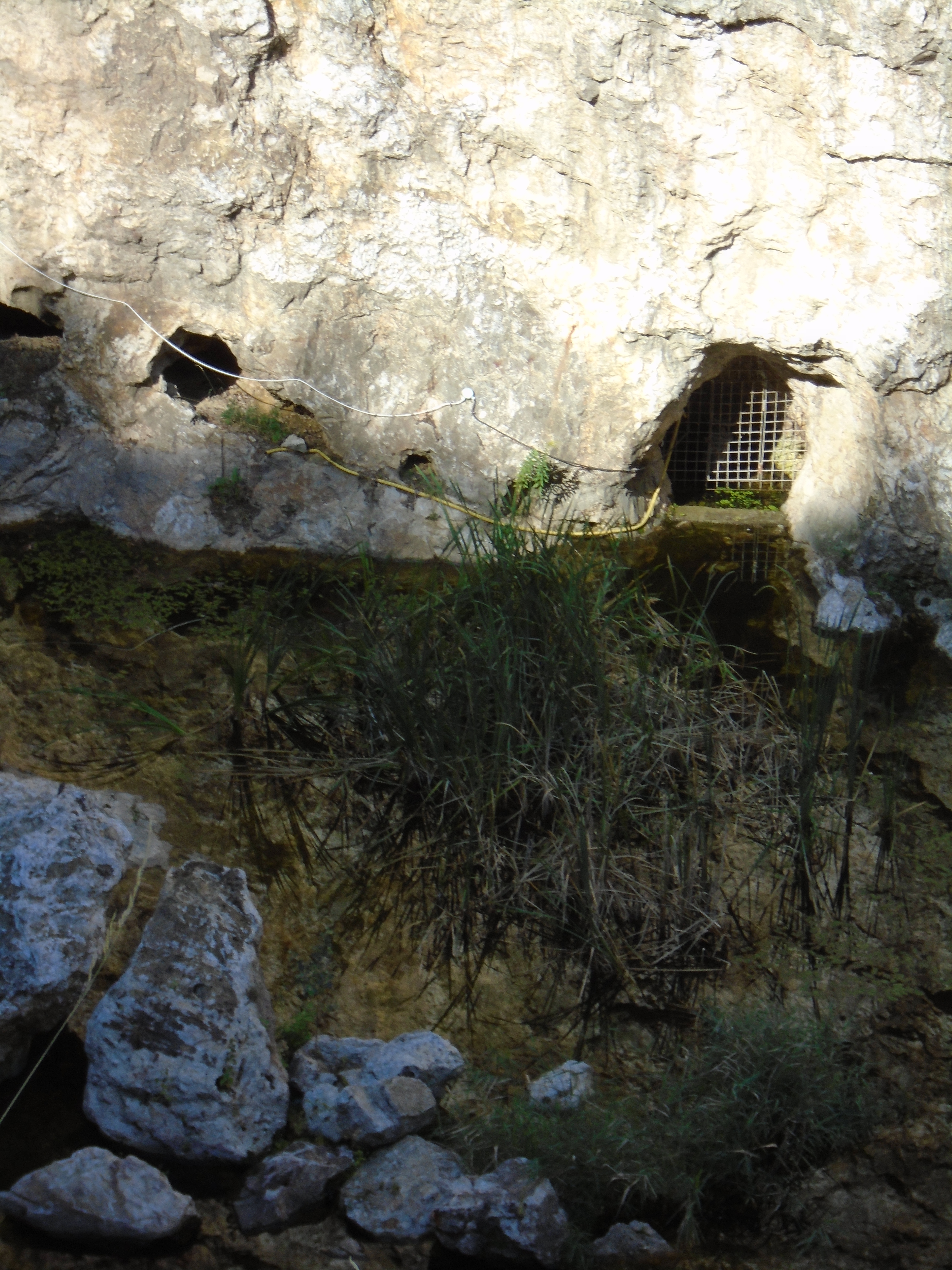 Entrance of Csókavári Cave in Üröm.